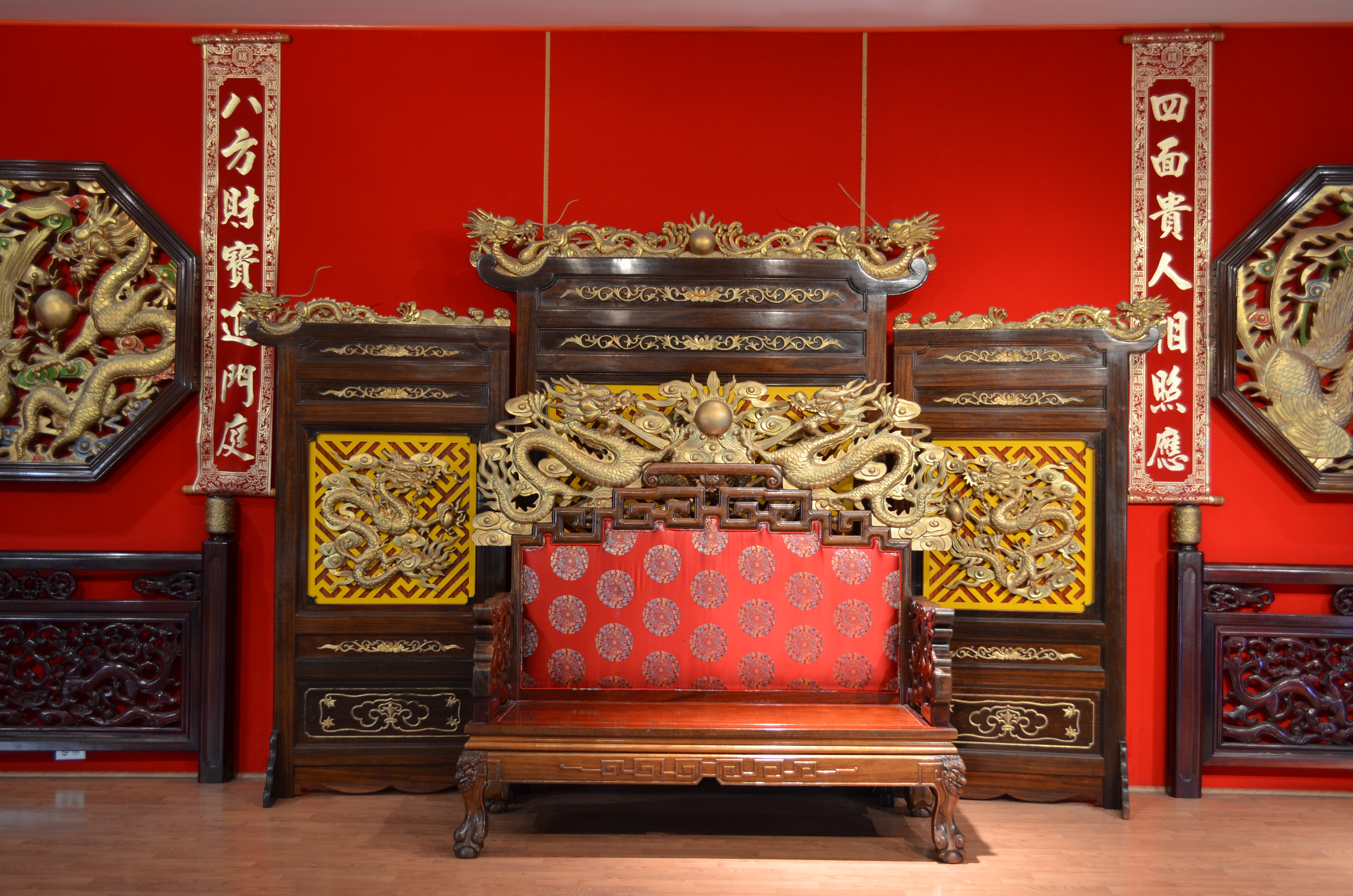 Pacific Heritage Town